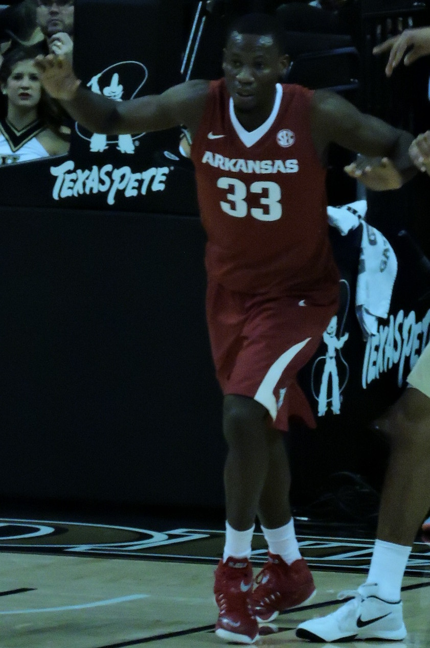 Devin Thomas passes the ball back outside against the Razorbacks